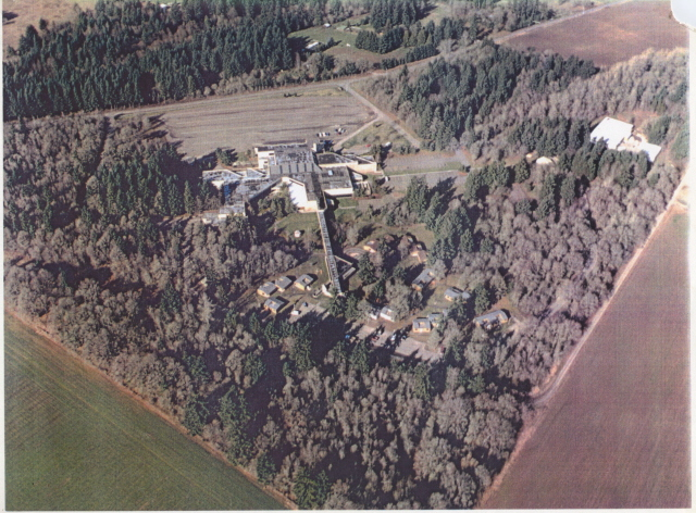 Aerial view of the Living Enrichment Center from a helicopter.